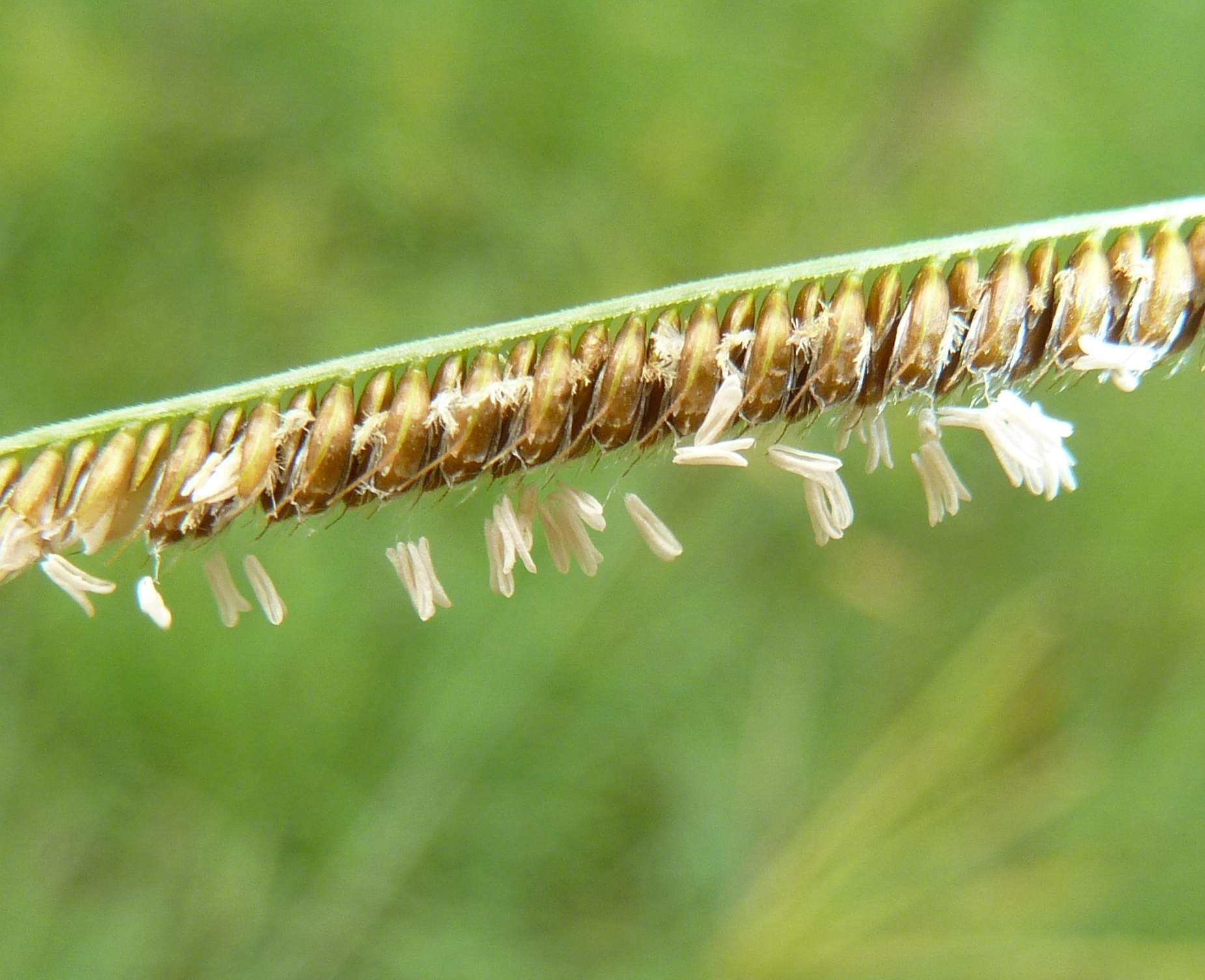 Florets of Brown Rhodes grass, at Skeerpoort on the southern slope of the Magaliesberg, South Africa. The base of the inflorescence is at right, and the tip of the rachis to the left.